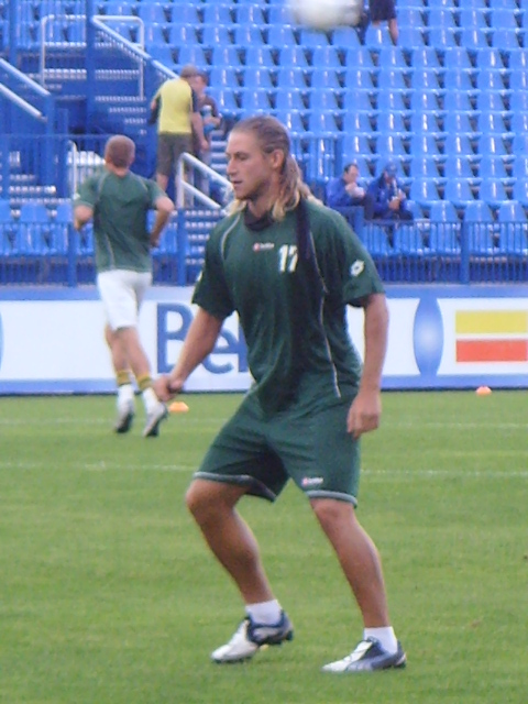 Mozzi Gyorio of FC Tampabay at Saputo Stadium in August 2011